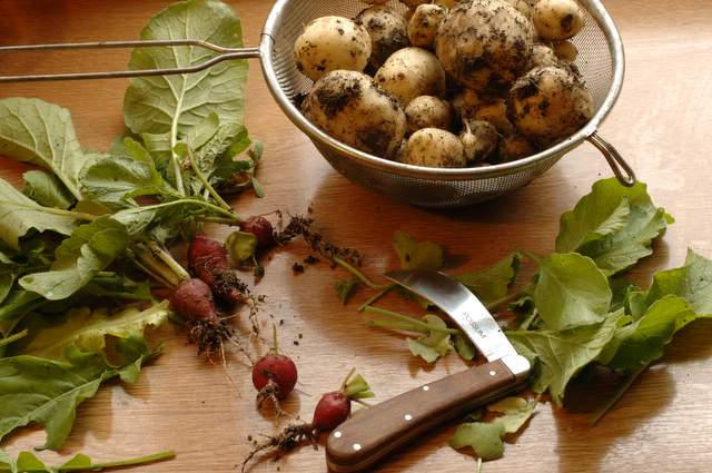 Vegetables from my own garden.